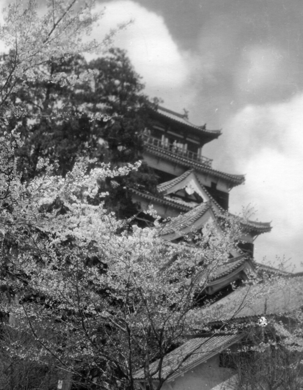 Hiroshima castle before bombed